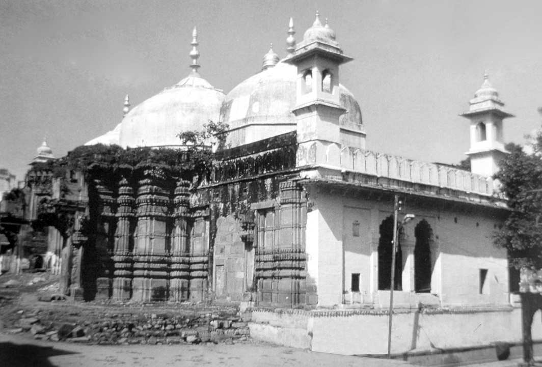 The original temple of Kashi Vishwanath with 'Gyanwapi' mosque standing atop.